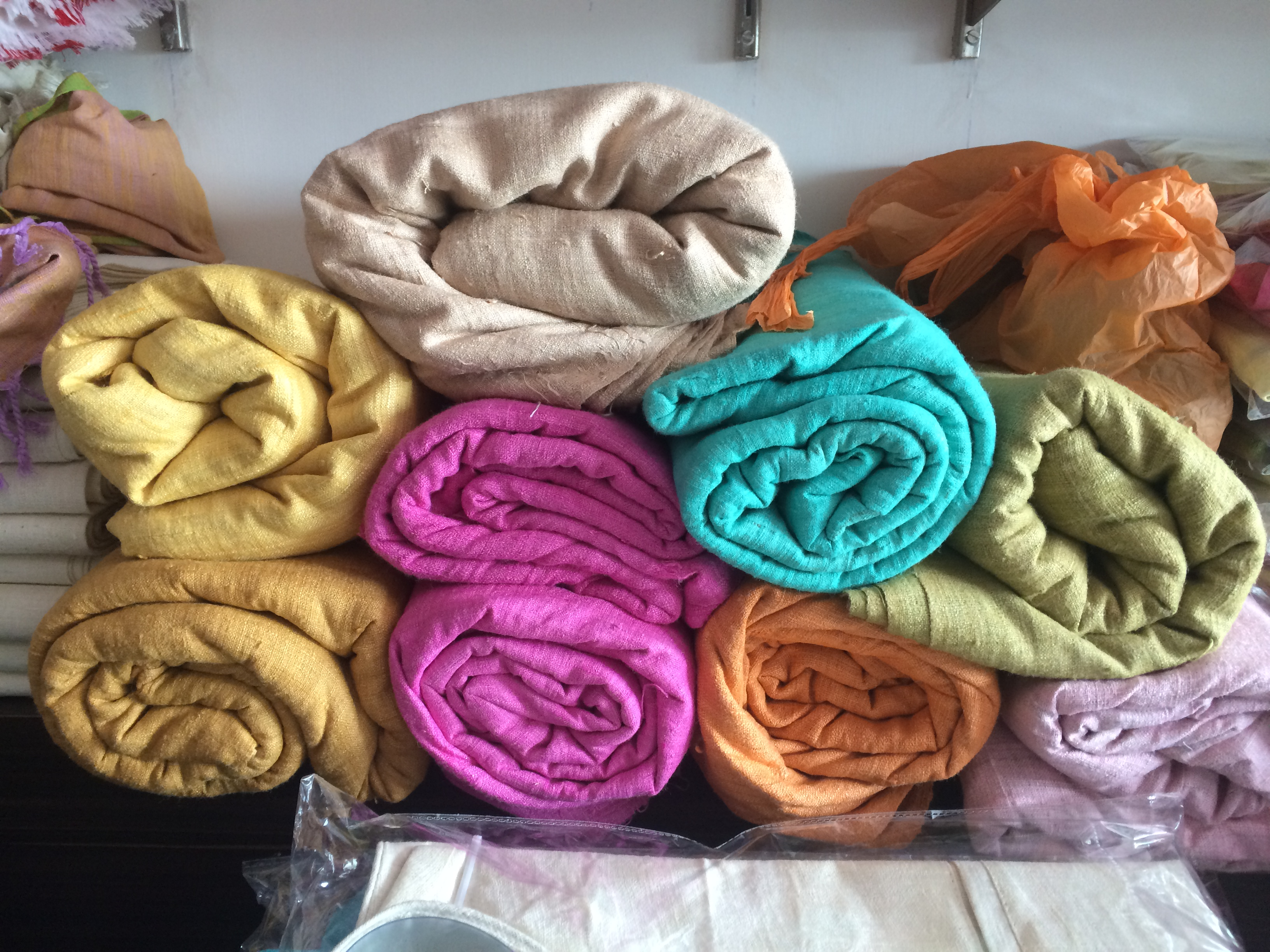 Image of Eri silk clothes dyed with natural dyes, as seen at 7Weaves, Assam, by indigenous people